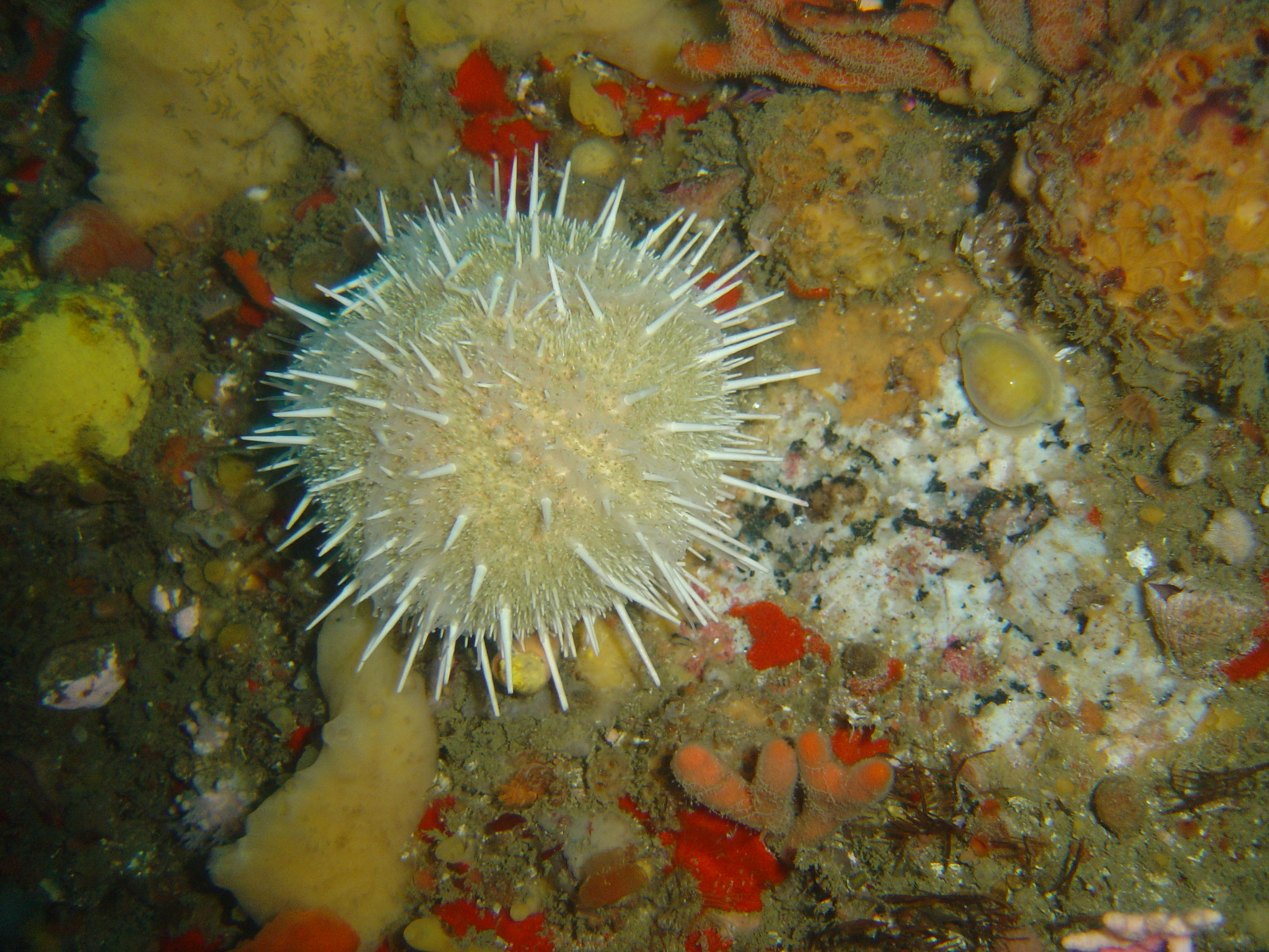 Gilchrist's sea urchin on deep reef at Tafelberg deep, Hout Bay.